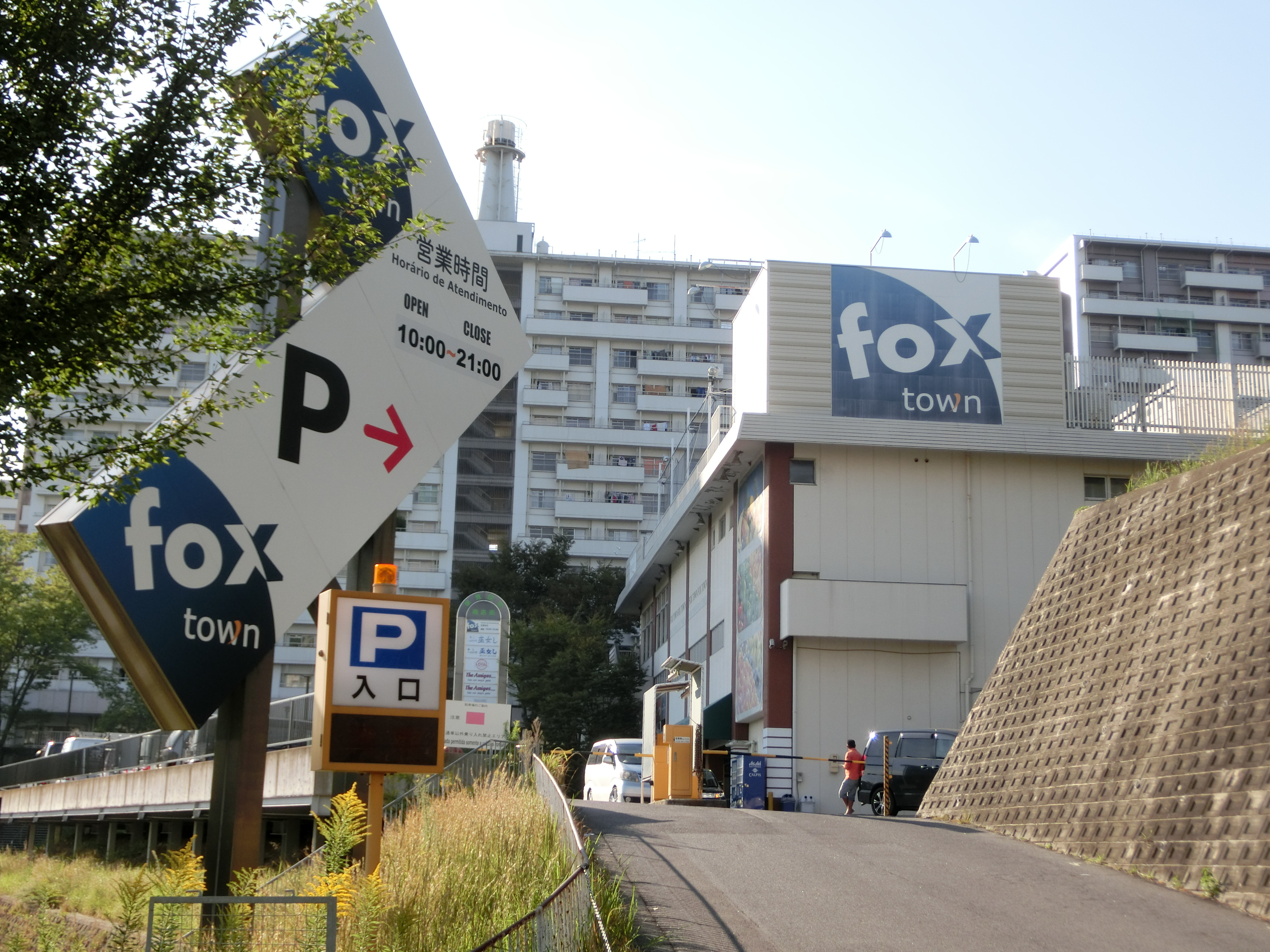 Fox Town Homi